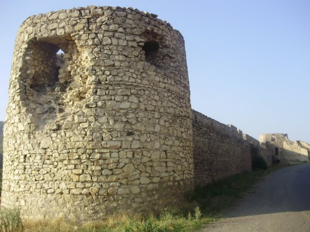 Fortress Mayraberd (Askeran fortress). Location: Askeran, Azerbaijan / Republic of Mountainous Karabakh ("Artsakh").